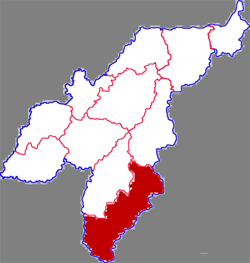 Location of Qihe county in Dezhou City, China